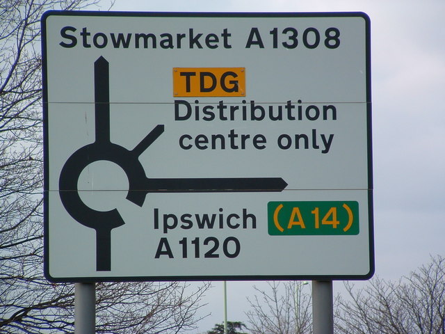 Road Sign Road sign at the junction of A1308 and A1120 Stowmarket Suffolk.